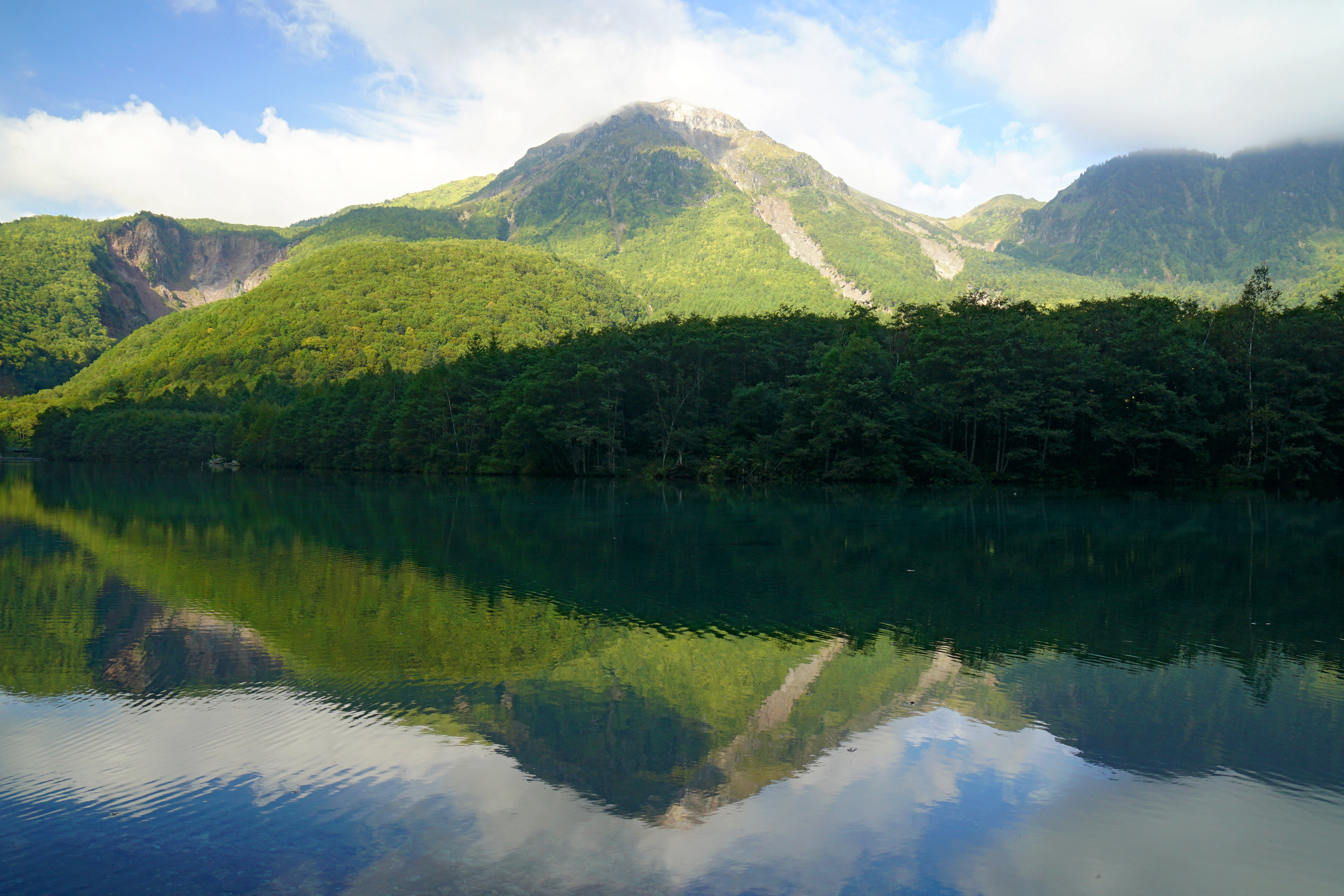 At Taisho-ike in Kamikochi, Matsumoto, Nagano prefecture, Japan